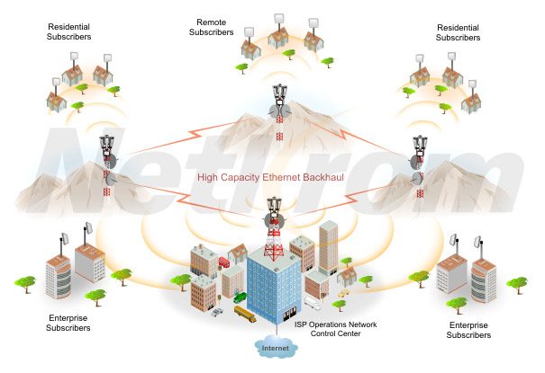 BWA